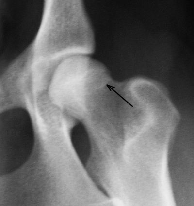 Morgan line in dog with hip dysplasia, x-radiograph